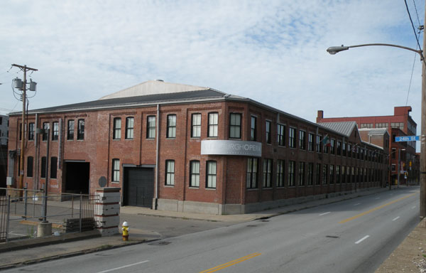 Picture of the Pittsburgh Opera headquarters located in the former George Westinghouse Air Brake Factory at 2425 Liberty Avenue in the Strip District of Pittsburgh, Pennsylvania, on July 18, 2010. The building was built in 1869, and was the original headquarters site for entrepreneur George Westinghouse.[1][2][3]